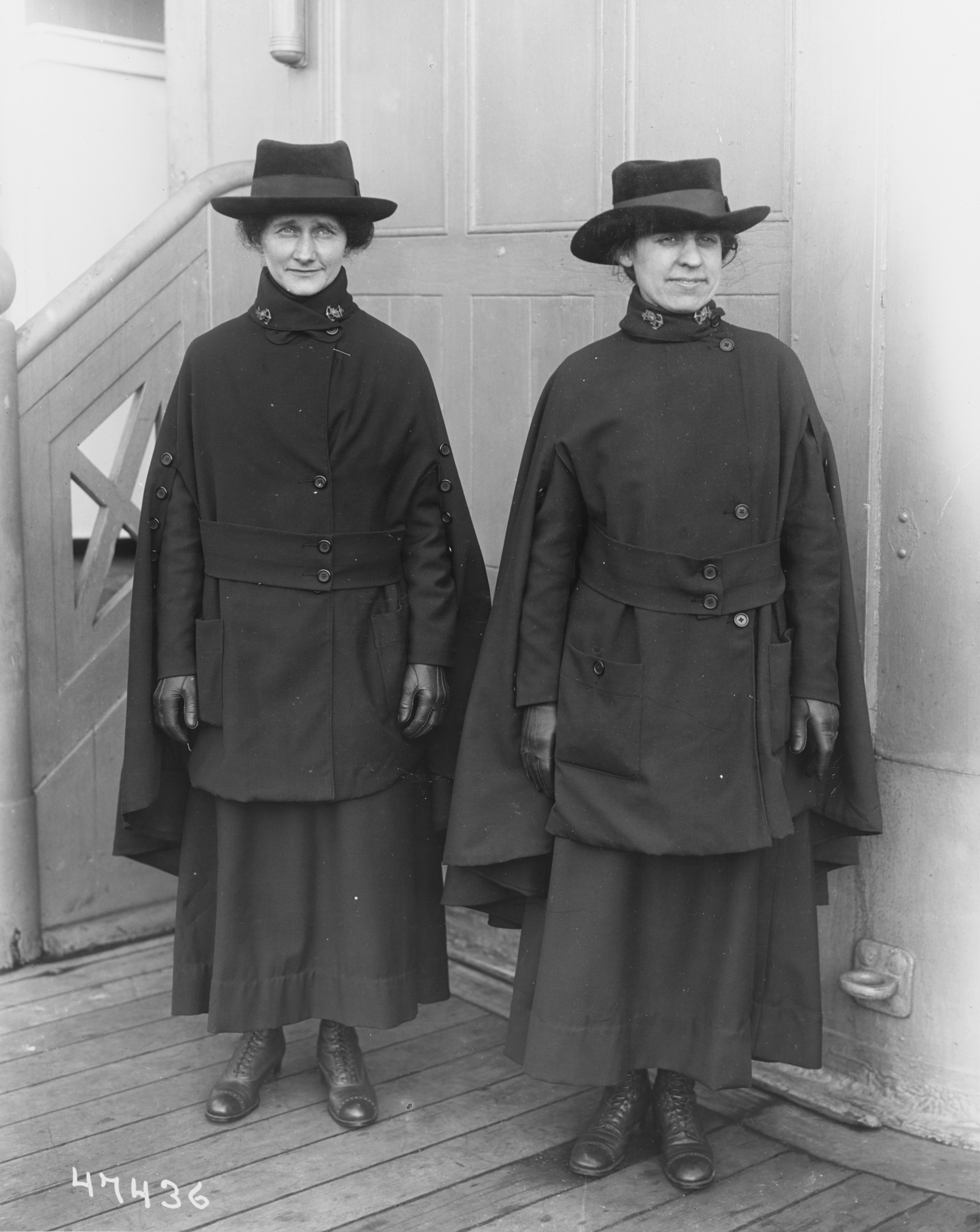 On board the transport USS George Washington, December 1918. The collars of their coat-capes bear the leaf, acorn and anchor insignia of the Navy Nurse Corps. Photograph from the Army Signal Corps Collection in the U.S. National Archives.